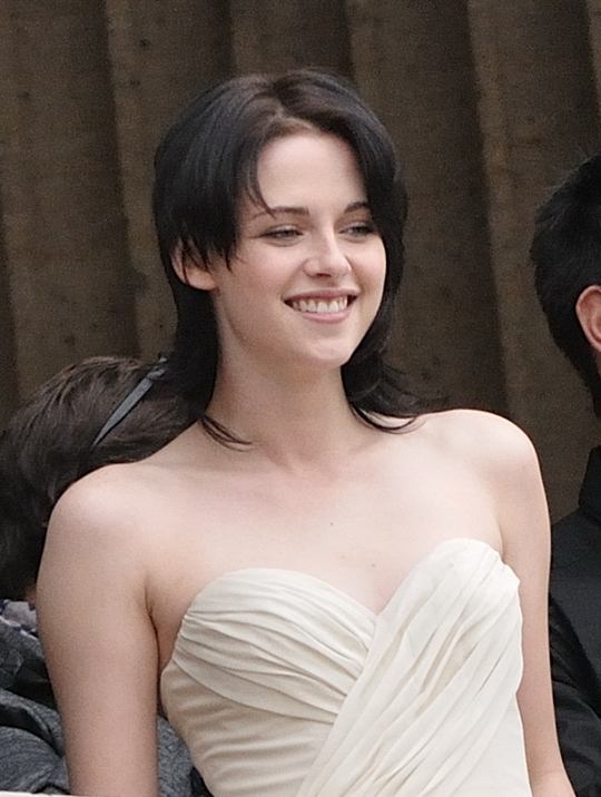 Kristen Stewart attending the Twilight Saga Film New Moon (Twilight Chapitre 2 Tentation) Photocall at the Crillon Hotel in Paris, France on November 10, 2009.